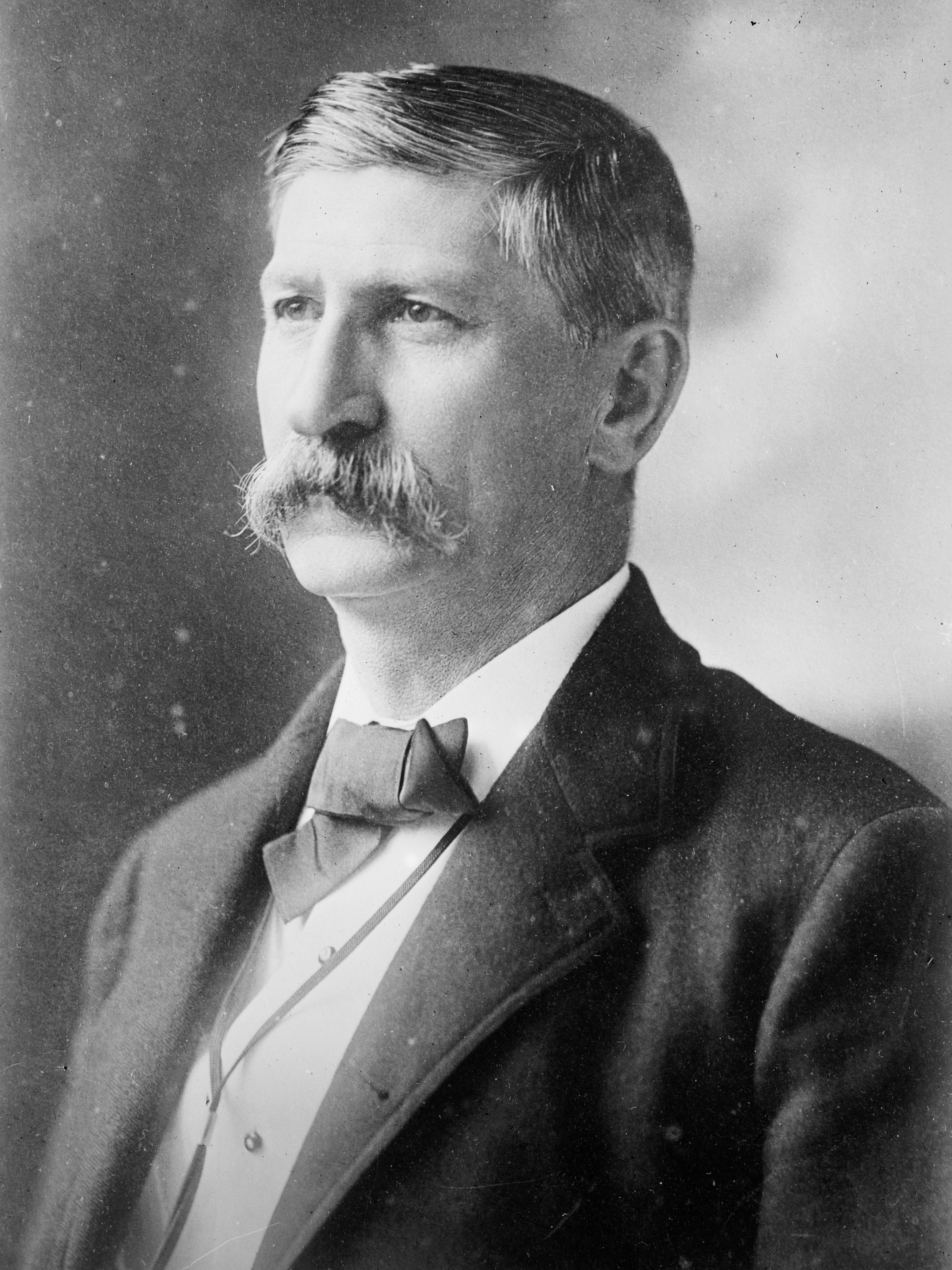 Joshua Frederick Cockey Talbott, former member of the United States House of Representatives.